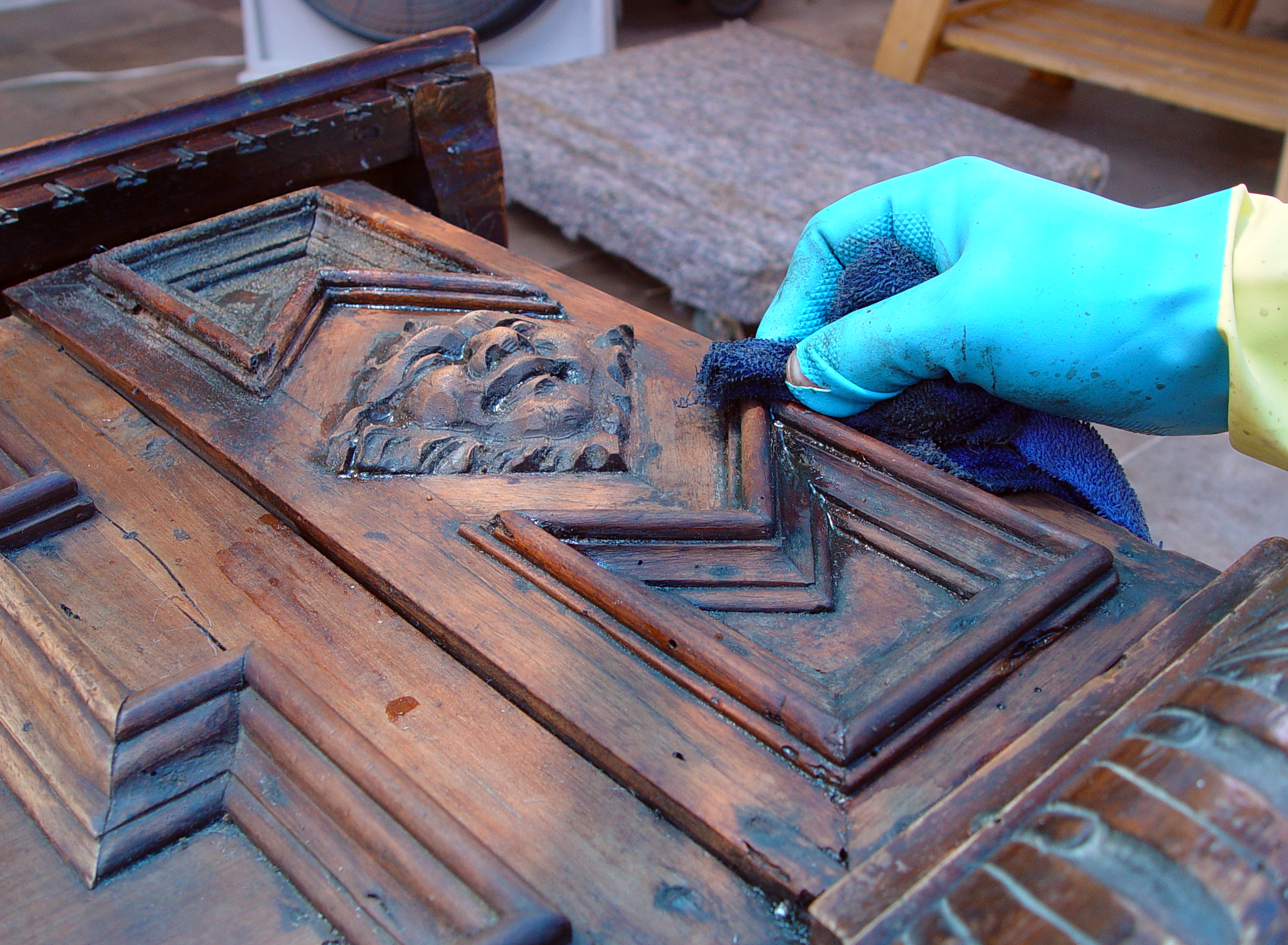 Furniture conservation - applying paint remover (stripper)